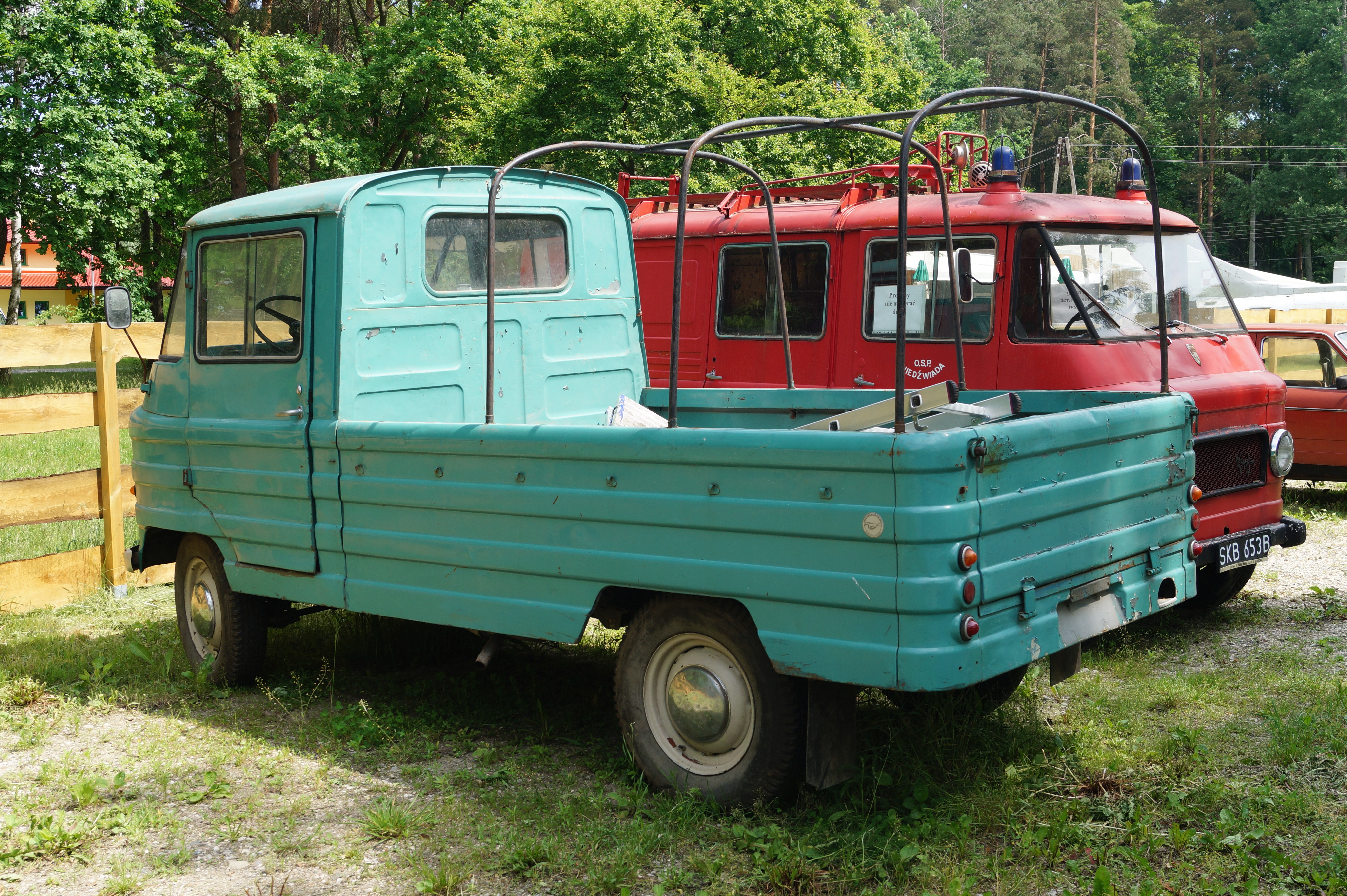 The making of this document was supported by Wikimedia Polska Association, within Wikigrant no. WG 2016-18. English | polski | +/− FSC Żuk A-03 w Muzeum w Nieborowie